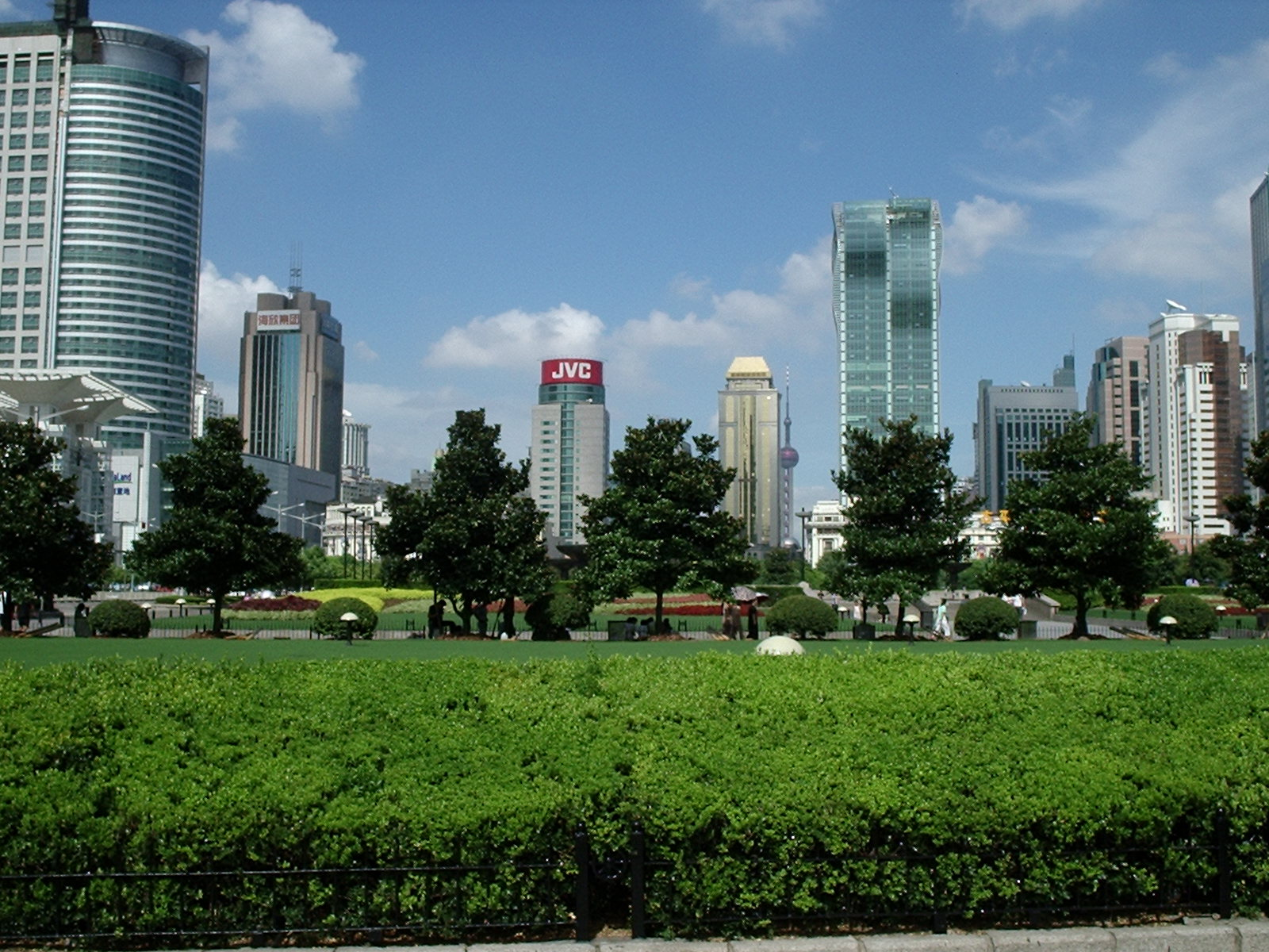 People's Park with skyscrapers in the background, Shanghai.